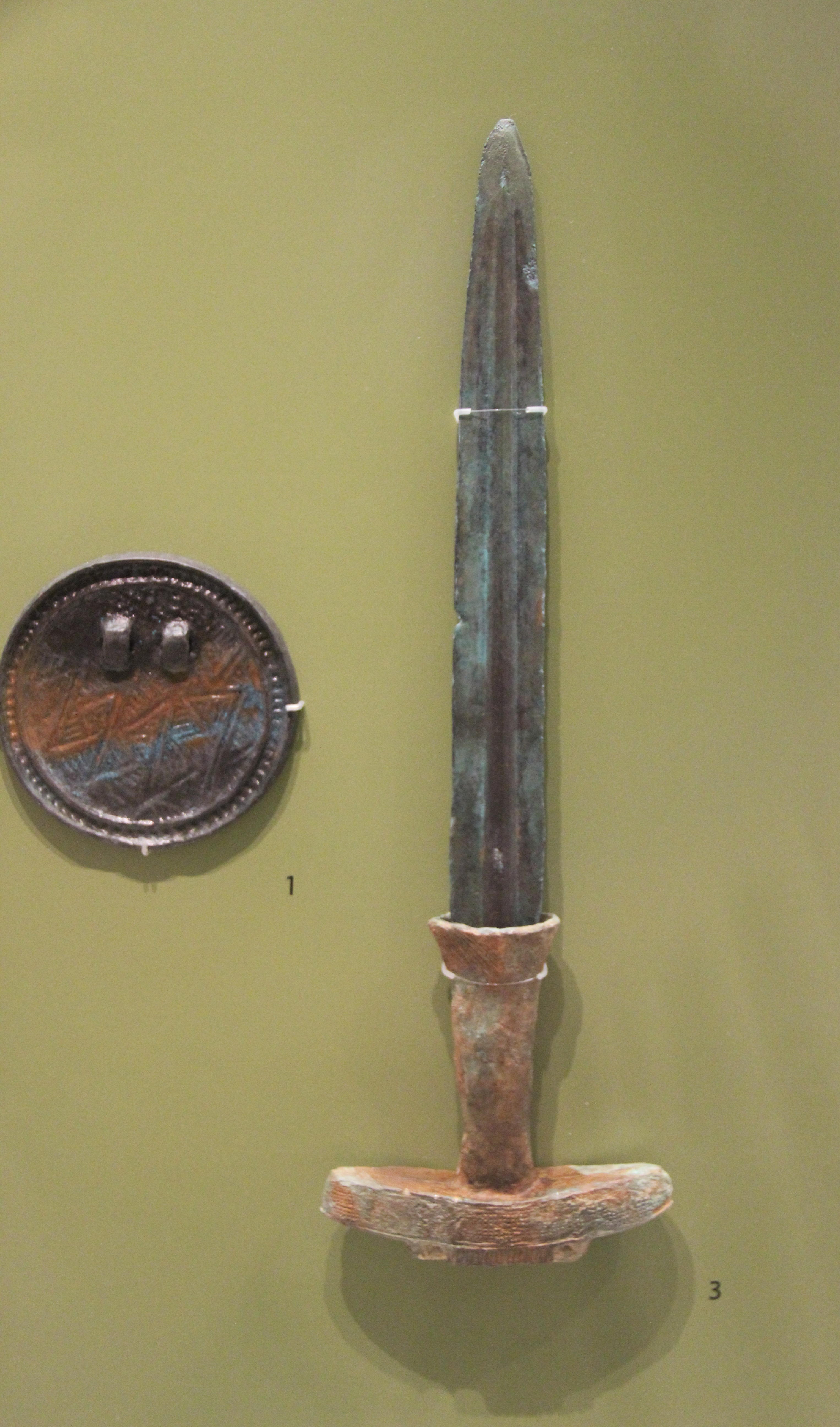 Korean-type bronze dagger and mirror with coarse design. Bronze ritual tools. 5th-4th century BCE. National Museum of Korea. Diameter of the mirror : about 8 cm.